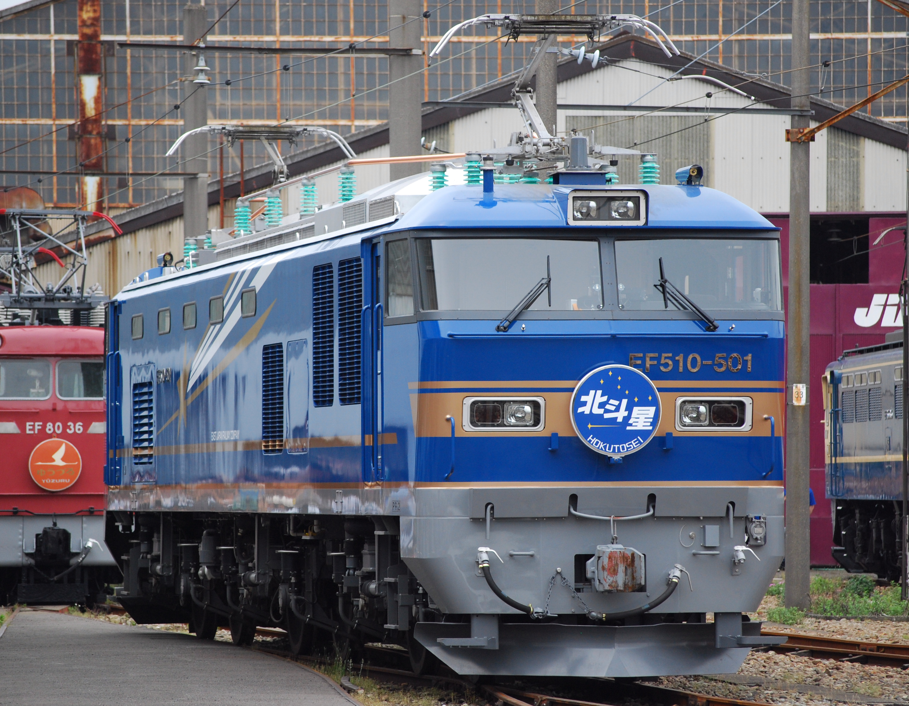 JR East Class EF510-500 electric locomotive EF510-501 on display at Omiya Works open day